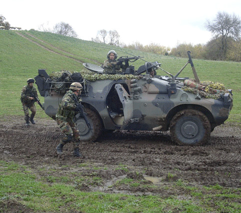 Soldiers of the 6° Lancieri_di_Aosta Cavalry Regiment training - Italian Army. Downloaded from the homepage of the Italian Army.